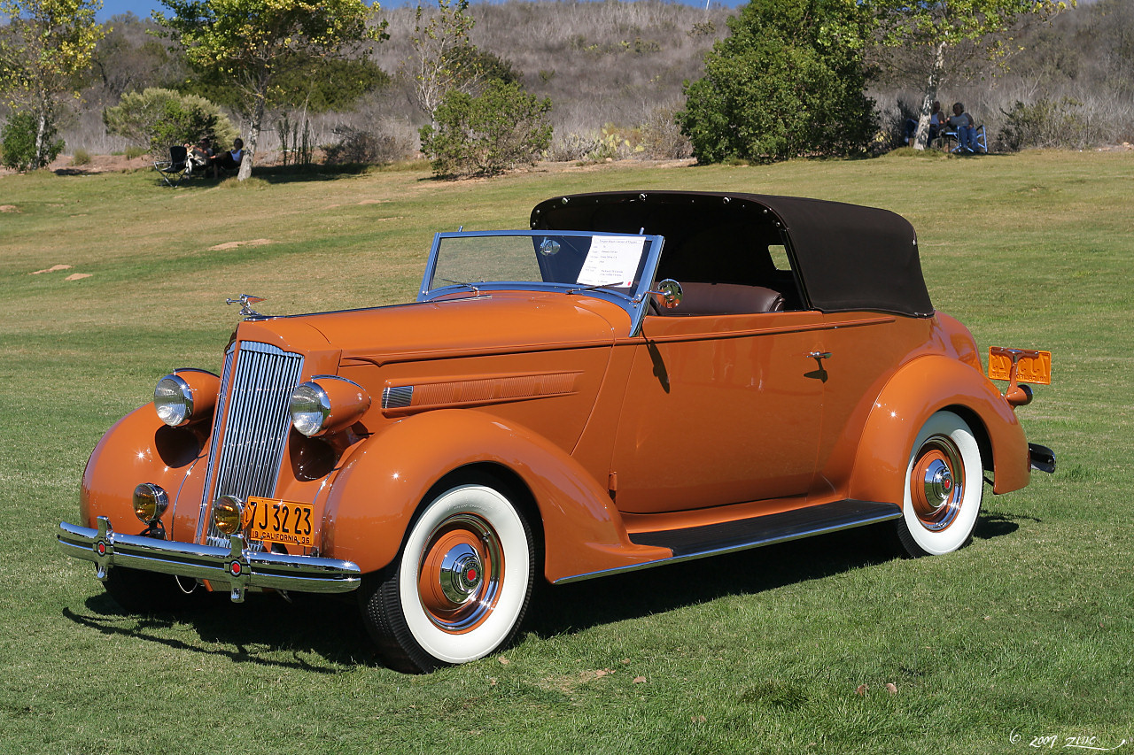 Packard One-Twenty Custom Convertible Victoria - LeBaron 1936 Newport Beach, CA, Concours d'Elegance, Strawberry Farms, Oct 9, 2007